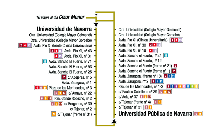 Tucplano1